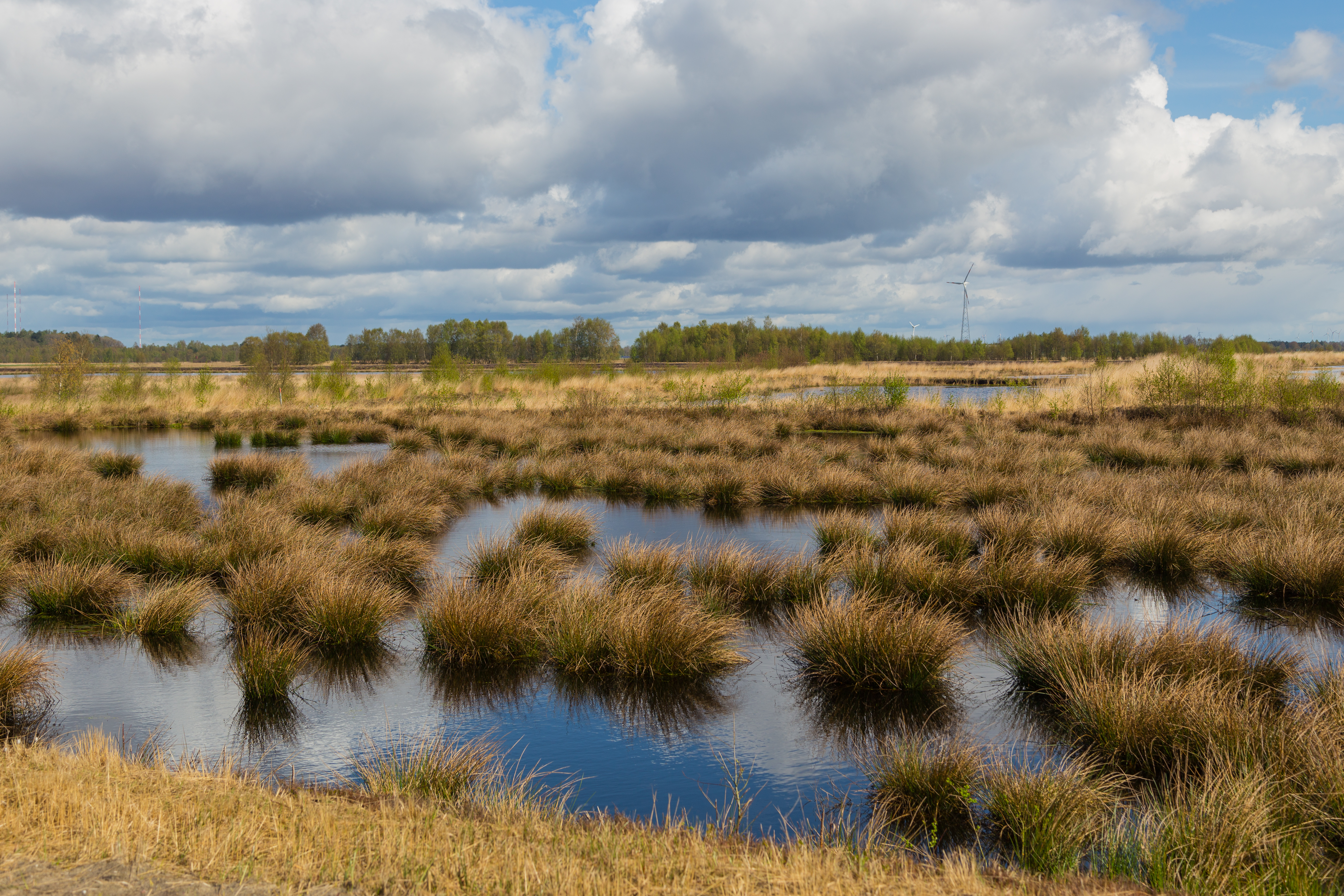 At the nature reserve Leegmoor, a bog near Surwold, Landkreis Emsland, Lower Saxony, Germany.